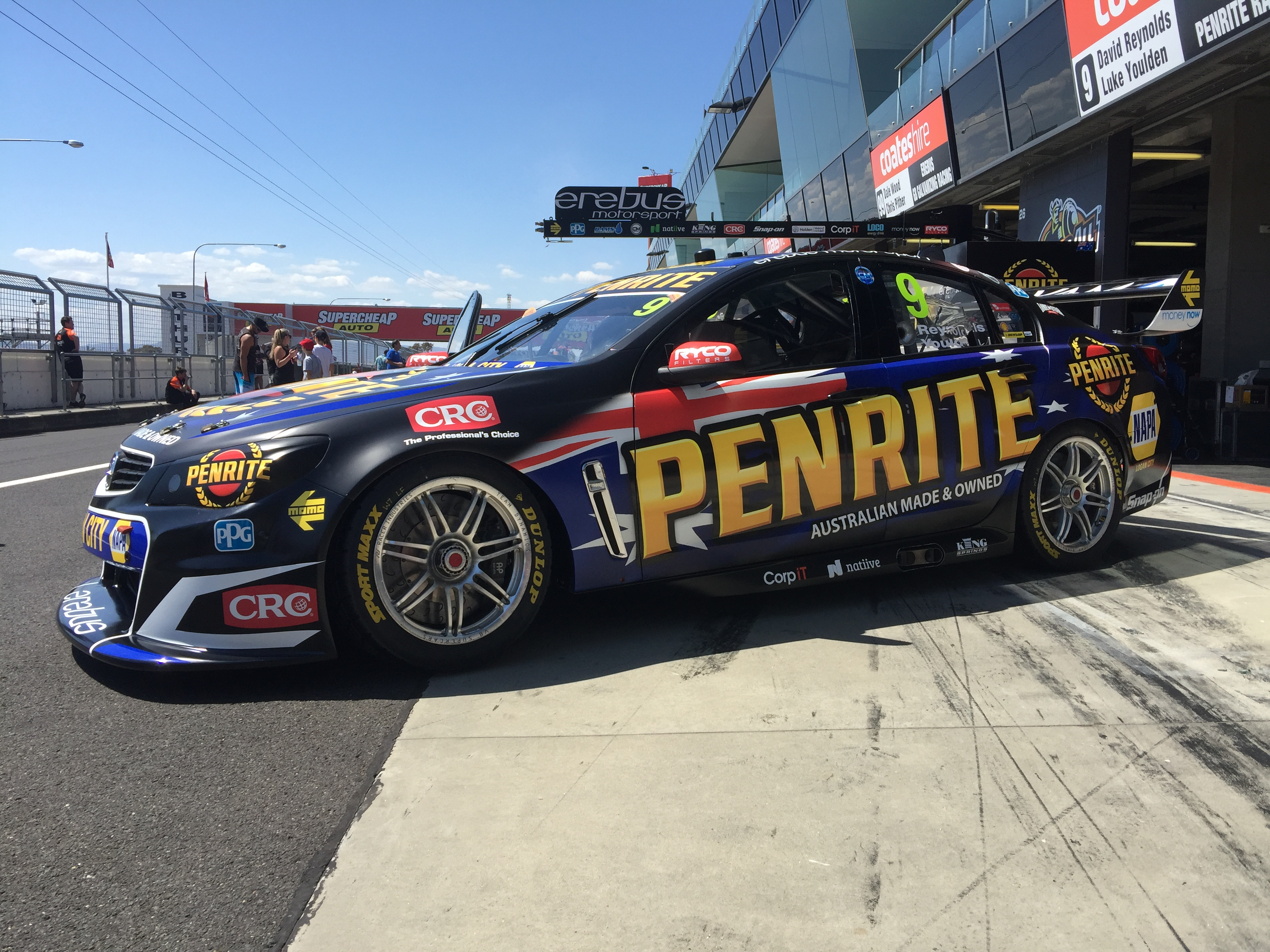 David Reynolds 2017 2017 Bathurst 1000 Winning Erebus Penrite Racing Supercar